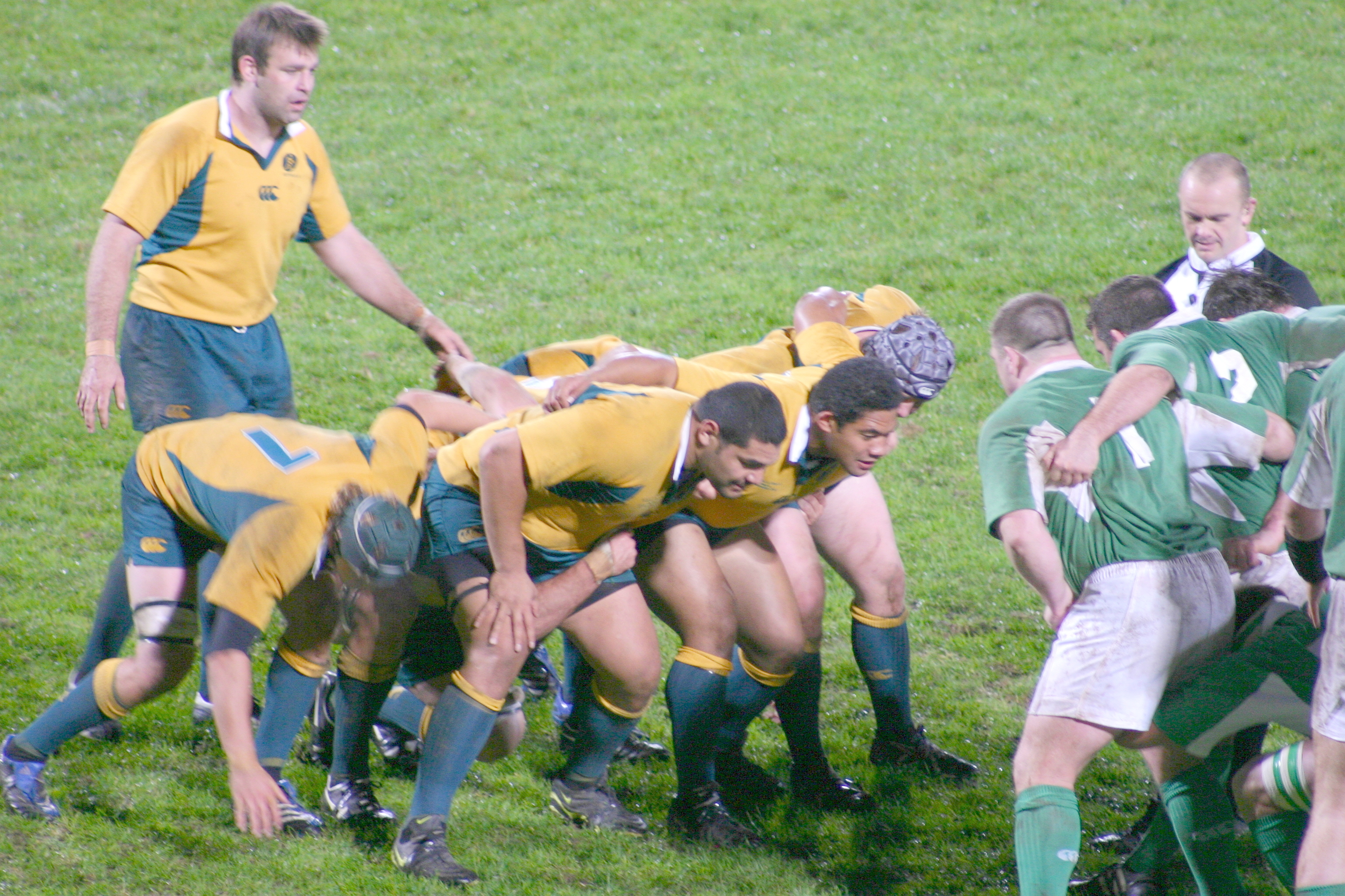 International match at Thomond Park, Limerick, between the "A" national rugby union teams of Ireland and Australia